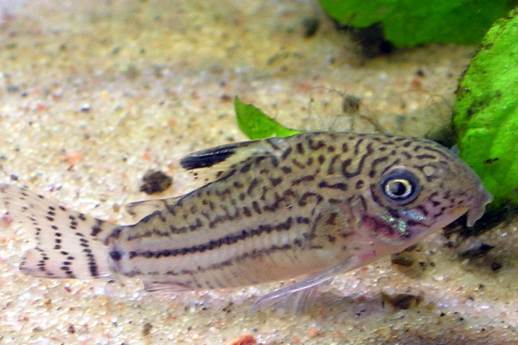 Corydoras trilineatus